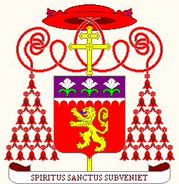 Coat of Arms of Gordon Gray Cardinal Archbishop of St Andrews & Edinburgh 1969-85